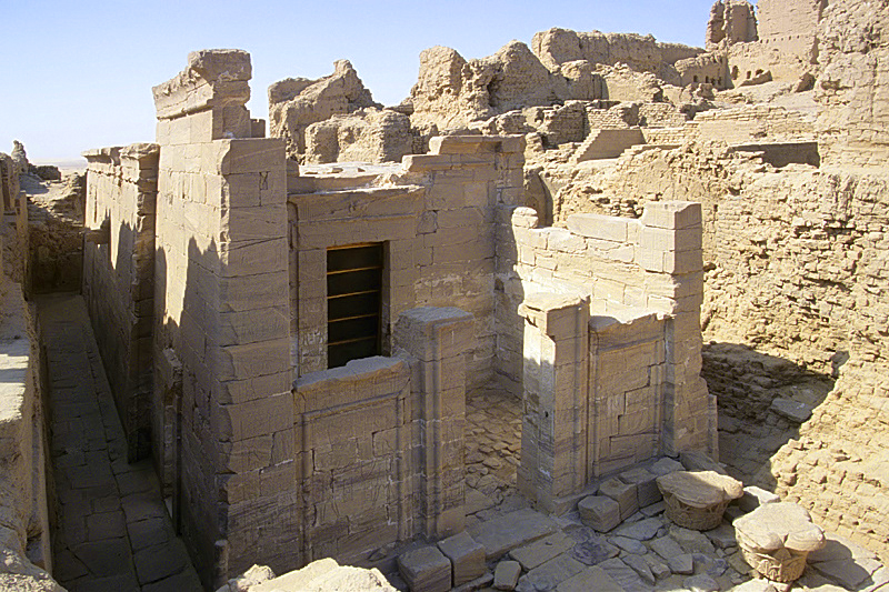 Pronaos of the Temple of Isis and Serapis, Qasr Dush, el-Kharga depression, Libyan desert, Egypt